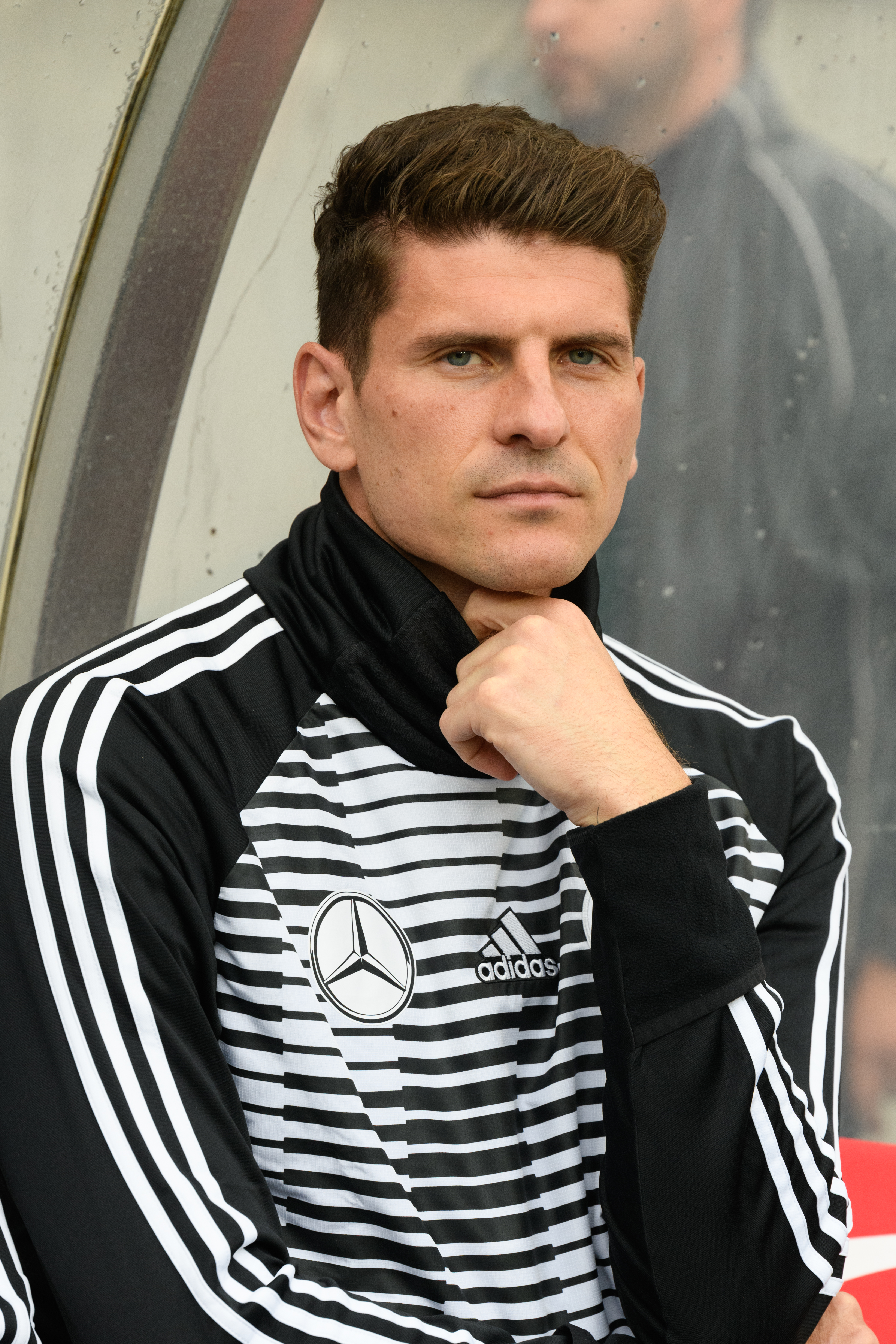 FIFA Friendly Match Austria vs. Germay 2018/06/02 in Klagenfurt/Woerthersee. Picture shows Mario Gómez (GER).